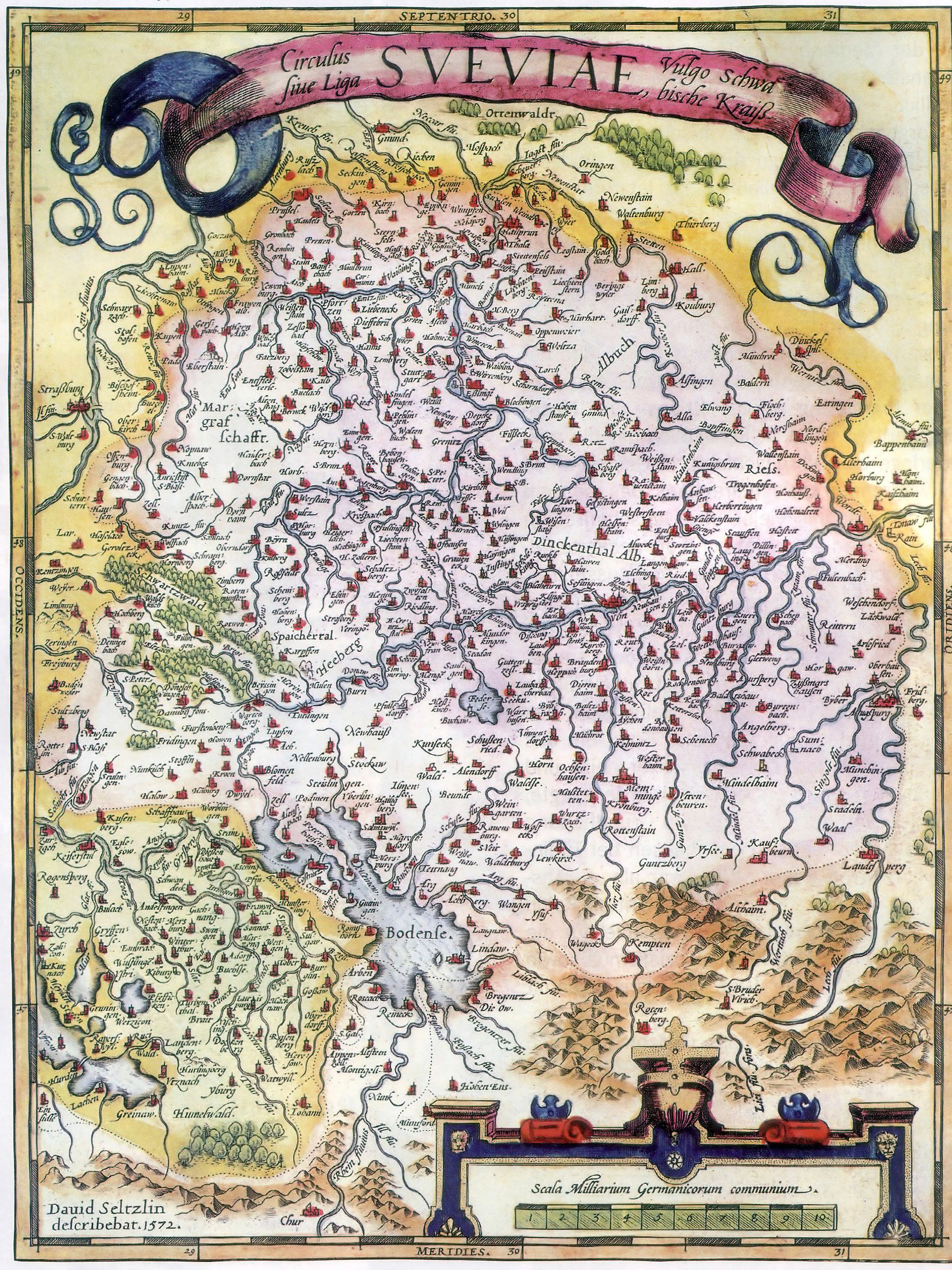 Right half of the map: Basiliensis Territorii - Circulus sive Liga Sveviae; from an Ortelius Atlas